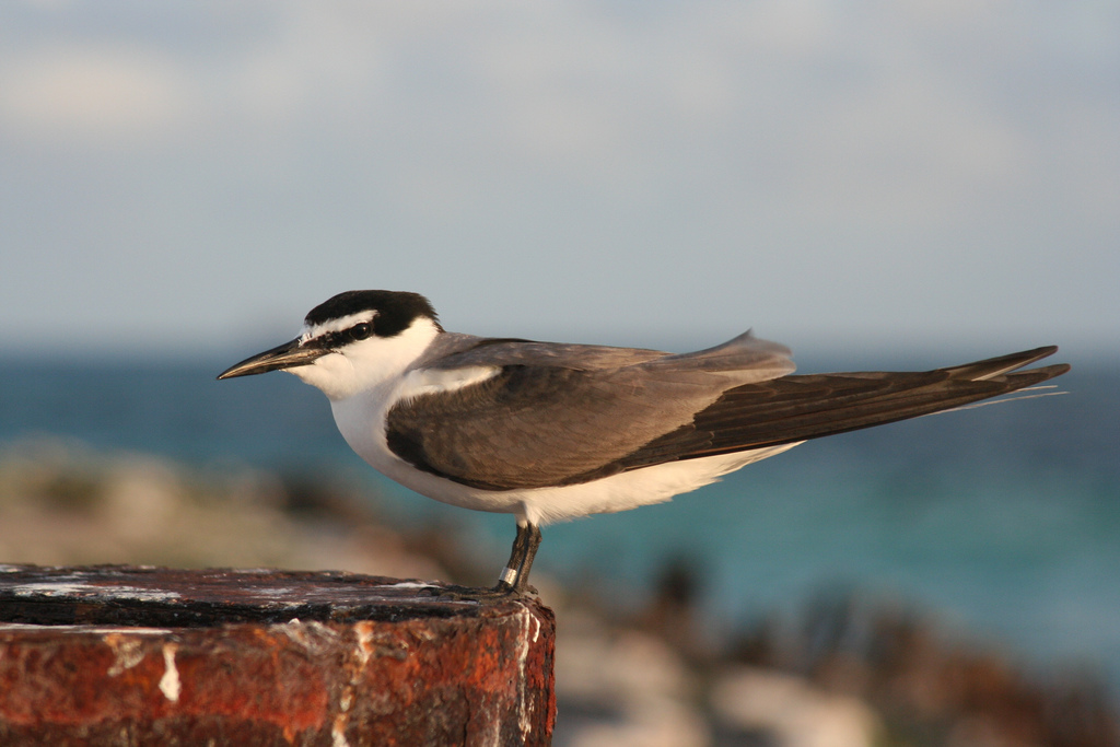 This adult was photographed on tern Island, in the Northwestern Hawaiian Islands. The species resembled the sympatric Sooty Tern but was a lot less common and nested in more marginal habitat on the island, at lower density. They were less aggressive and had a different call.